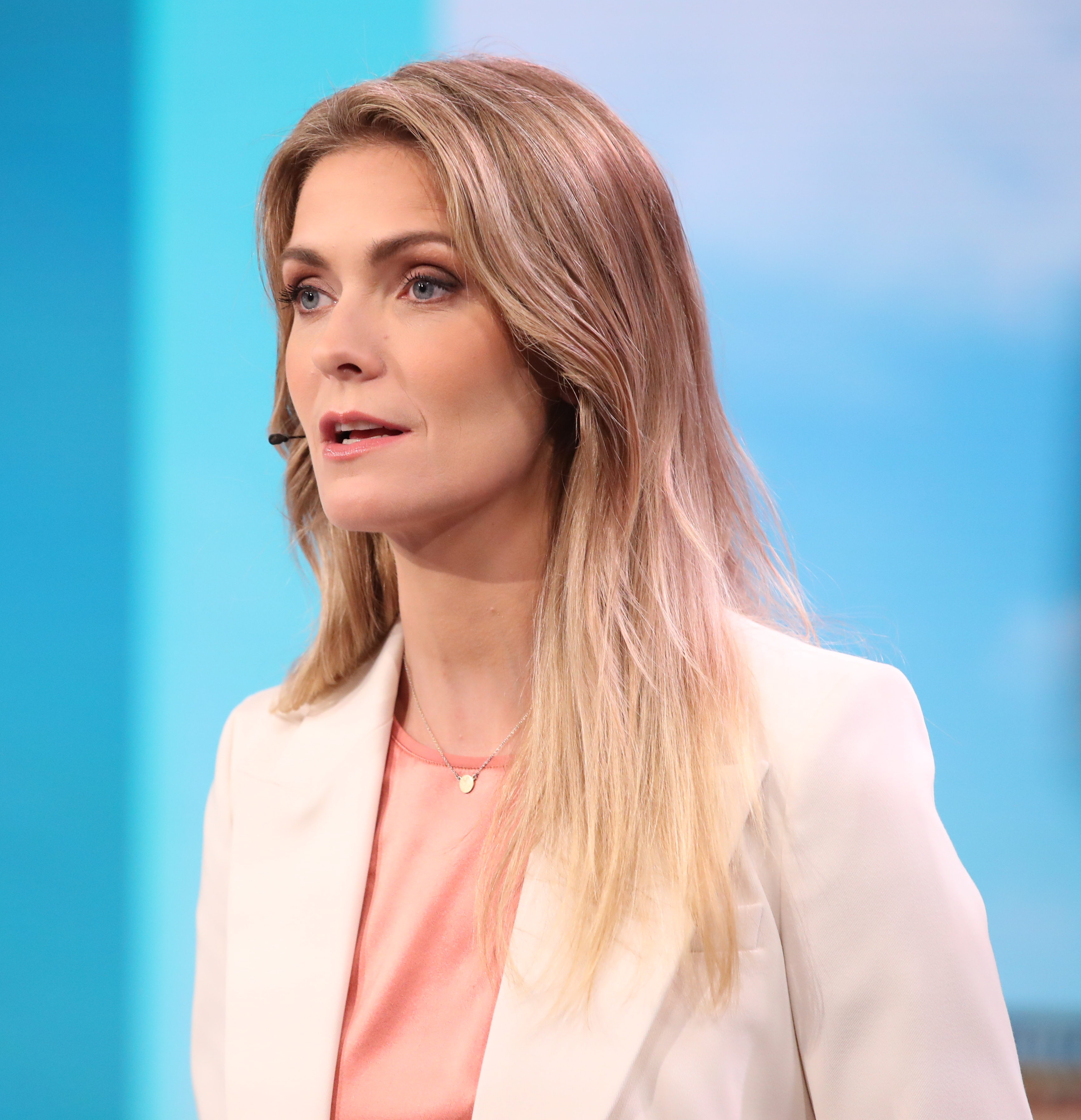 Election night Saxony 2019: Wiebke Binder (MDR)